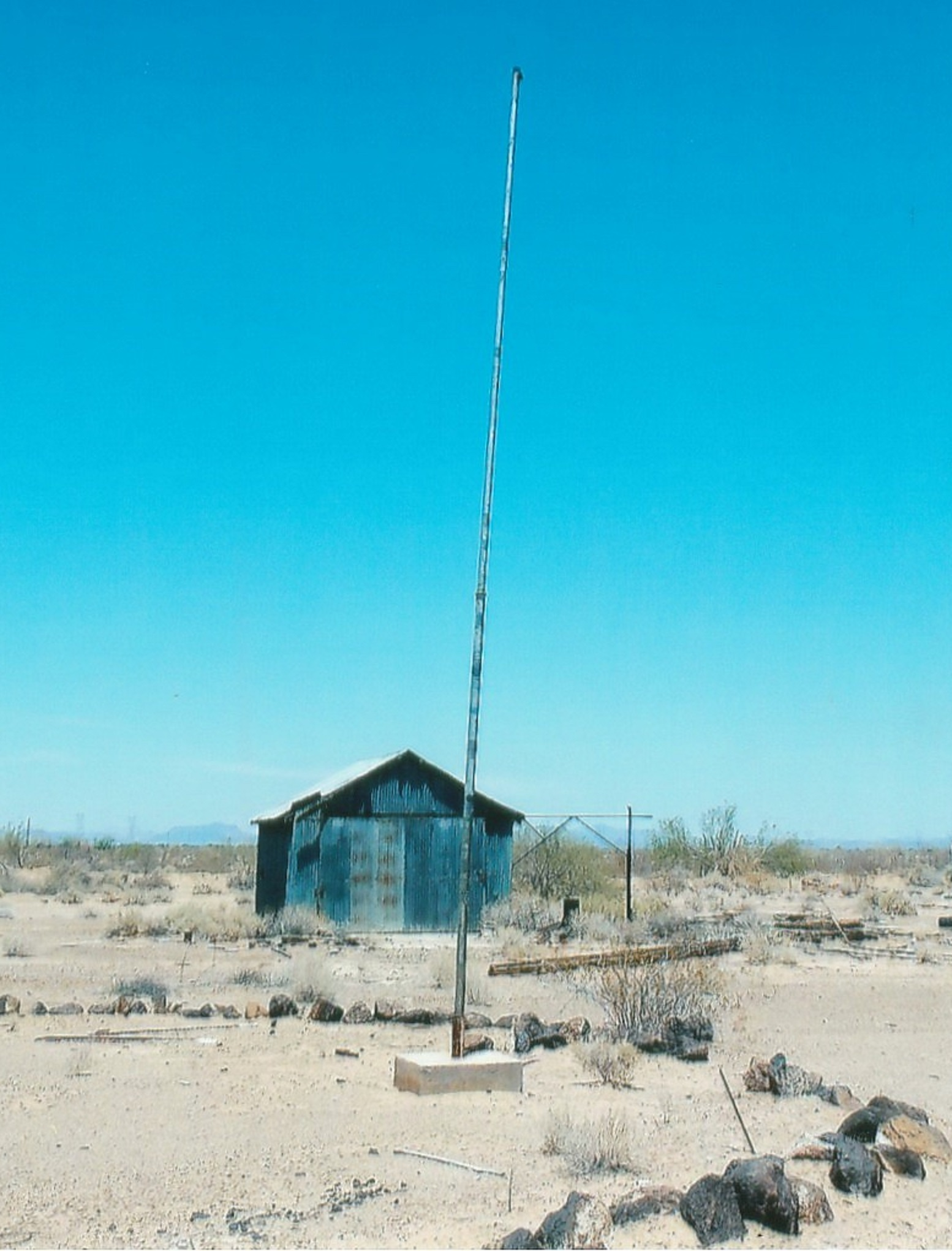 Camp Hyder flagpole – Camp Hyder was a 1890’s military base named after the town of Hyder. The buildings which are still in good condition were used by the 77th Infantry Division and the 104th Infantry Division during World War II.